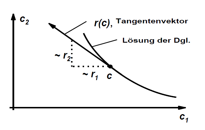 Derivation of the trend of a chemical reaction at a given concentration. (related keywords: Attainable Region Method, concentration area, vector of reaction)